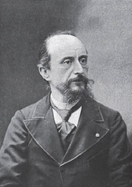 Portrait of Lucian Duc